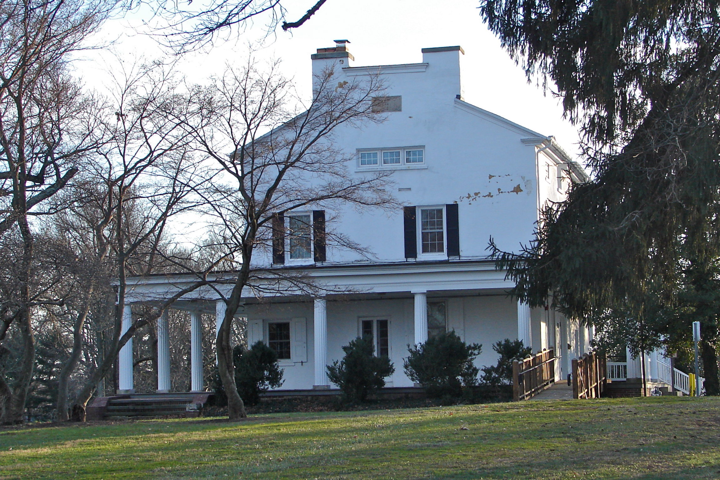 Belmont Hall on the NRHP since February 24, 1983. At 203 W. Main St., Newark, Delaware. Used by the University of Delaware by the Psych Department.